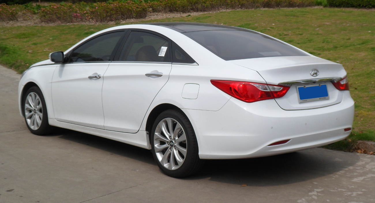 Hyundai Sonata YF photographed in Shanghai, China.